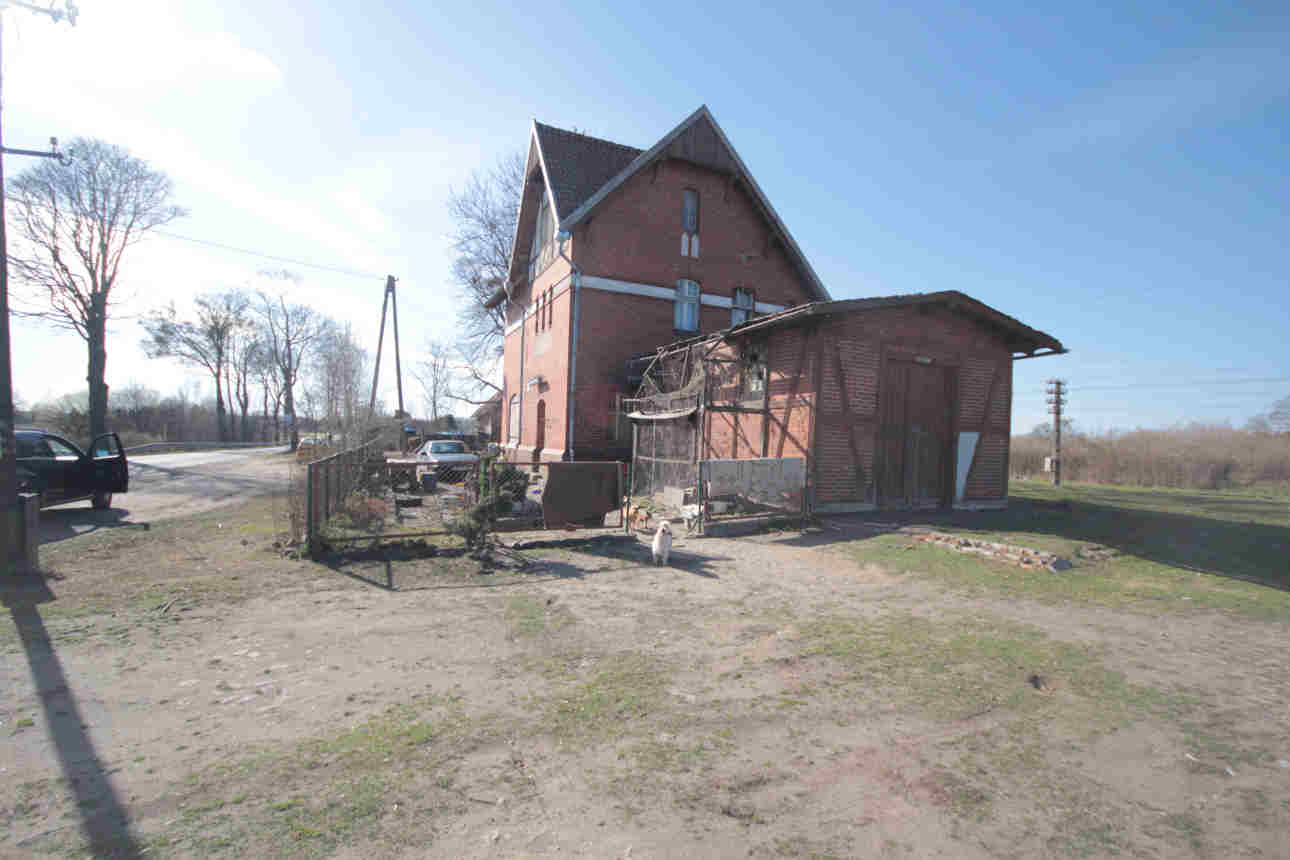 Station Kosewo in Poland